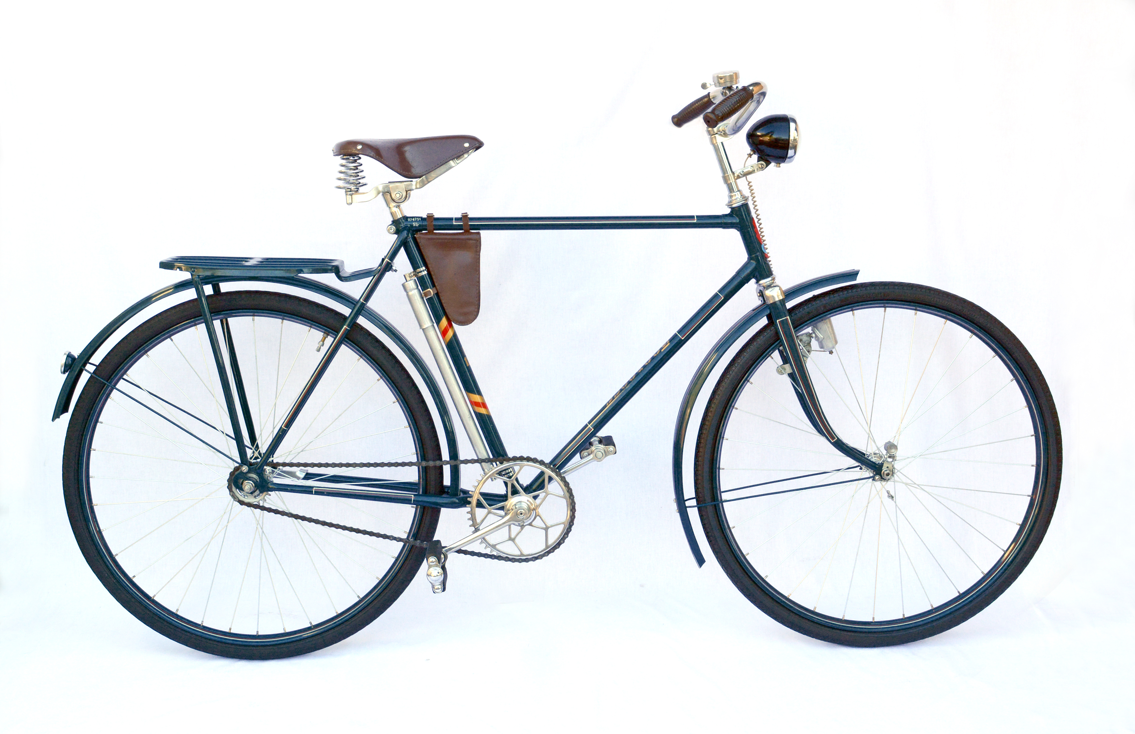 USSR bicycle V-110 «Progres” (Kharkiv bicycle factory) 1957